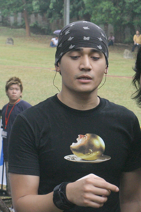 Dewa Concert in Fort Canning Singapore, 27 Feb 2005